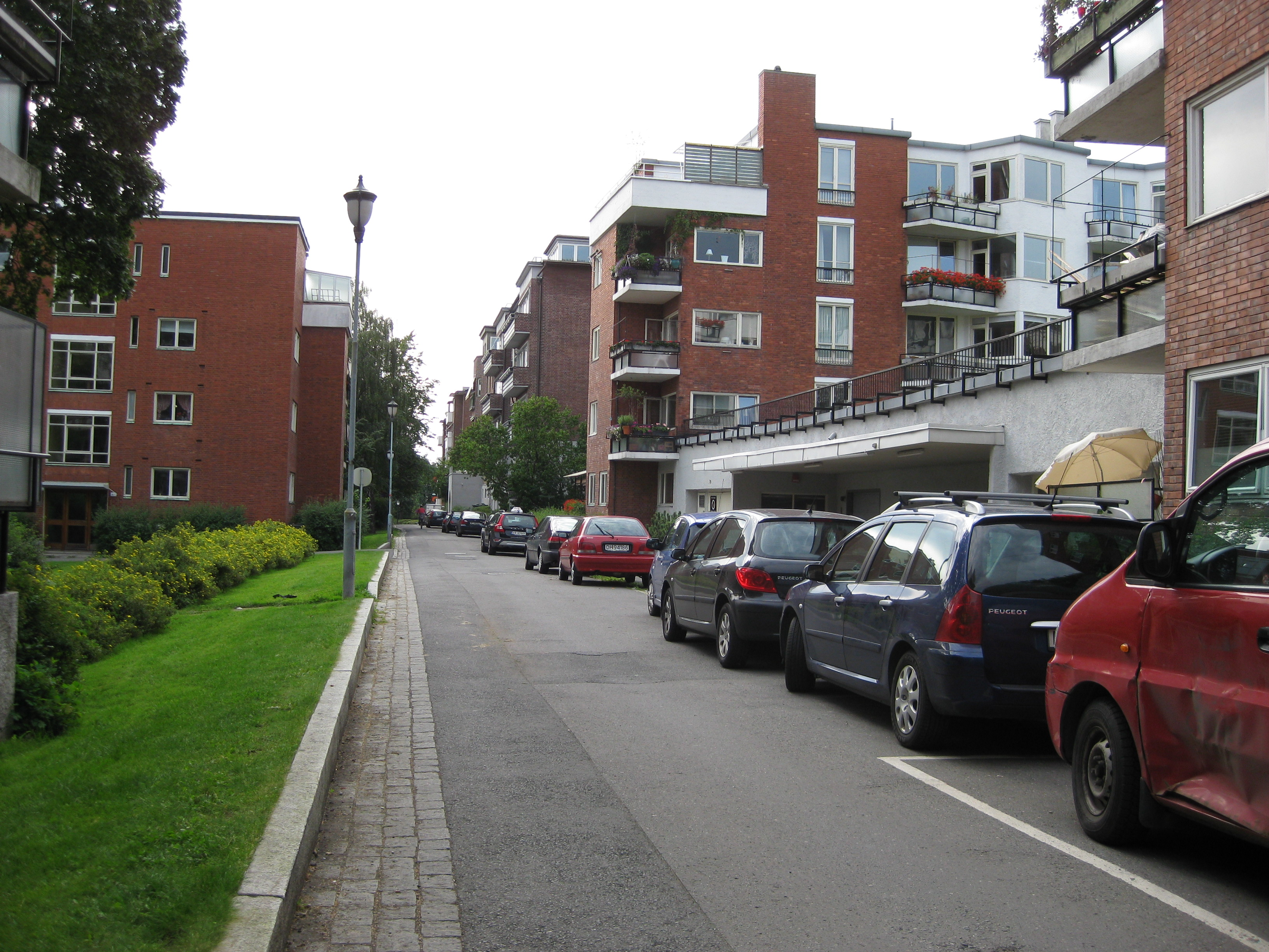 Observatorie Terrasse, Frogner, Oslo, Norway